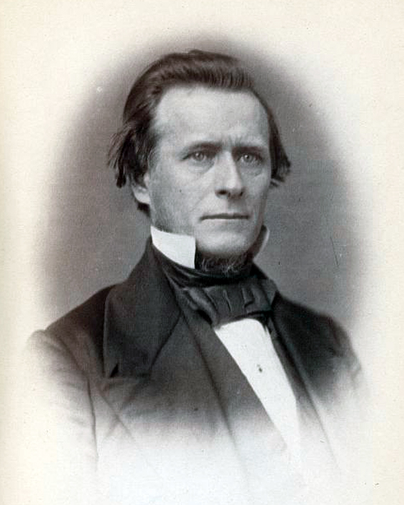 Allison White, US Representative from Pennsylvania